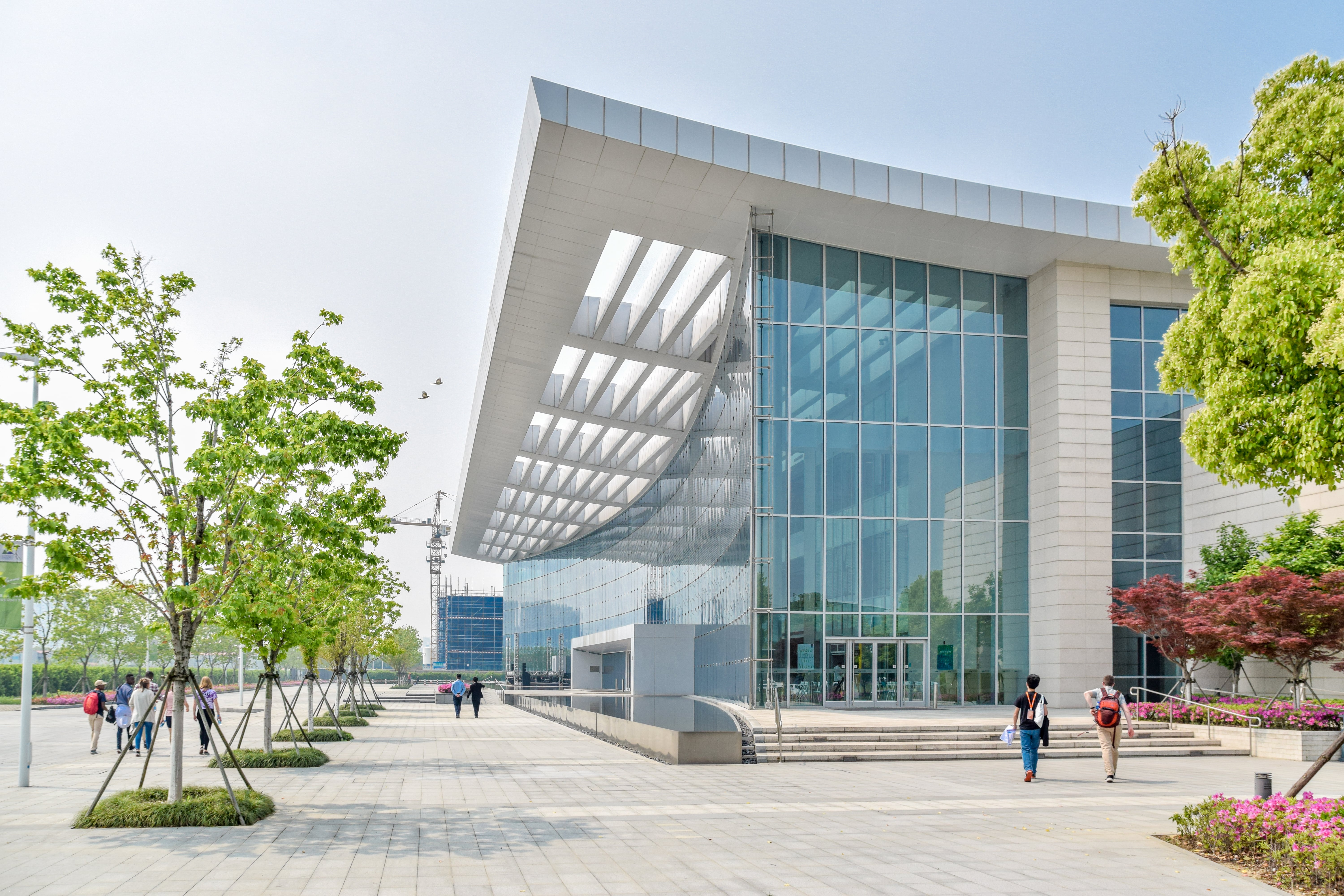 The school’s teaching programs are housed in the three-story building containing four-tiered classrooms, an auditorium, a library, a dining room for students and conference participants, and a business center. A full-height central atrium “living room” serves as a campus-gathering place, emblematic of the school’s emphasis on collaboration and community. The atrium and roof terraces enjoy views of the lake to the west and the campus main quadrangle to the east.